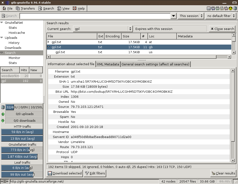 gtk-gnutella v0.96.4 ultrapeer mode screenshot. The window manager is Beryl.